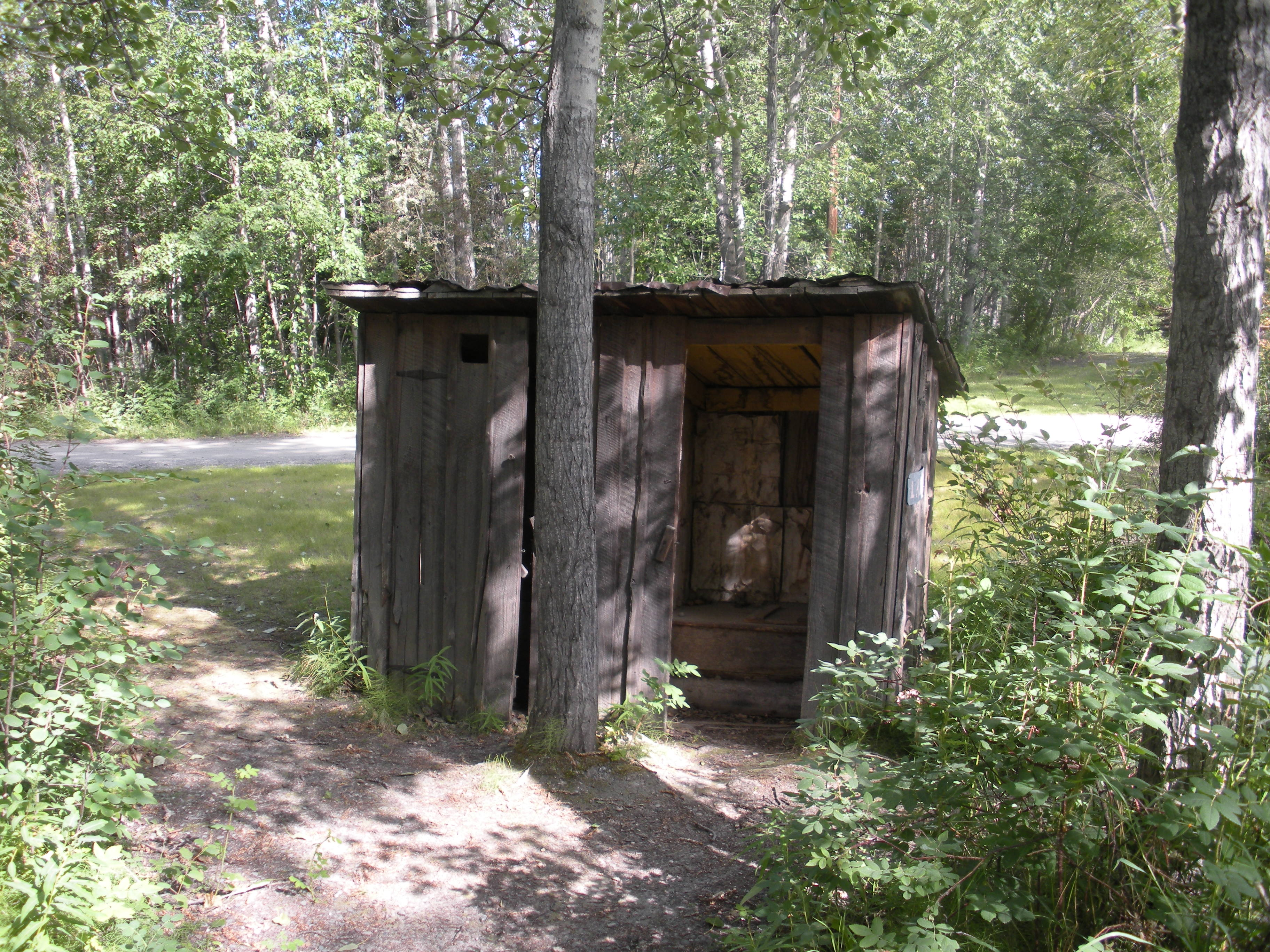 Rika's Landing Roadhouse, a roadhouse on the National Register of Historic Places in Southeast Fairbanks Census Area, Alaska, United States. It is located at mile 252 of the Richardson Highway in Big Delta at a historically important crossing of the Tanana River. It is in the Big Delta State Historical Park and is NRHP Building #76000364, added 1976. The roadhouse is named after Rika Wallen. This particular view is of a privy (outhouse) on the property